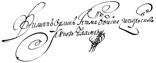 Signature of Philipp Orlik, 1710. Written: Fylypp Orlyk Hetman voyska zaporozhskoho rukoyu vlasnoyu (Philipp Orlik Hetman of the Zaporozhets Army by own hand).